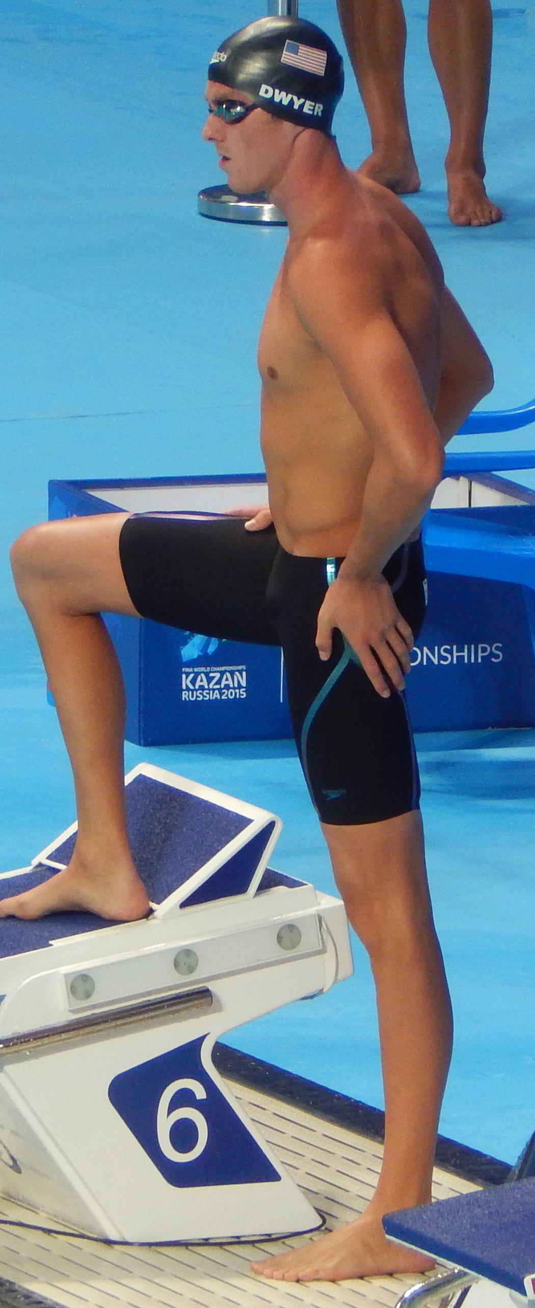 Conor Dwyer at the 200m freestyle semi in Kazan